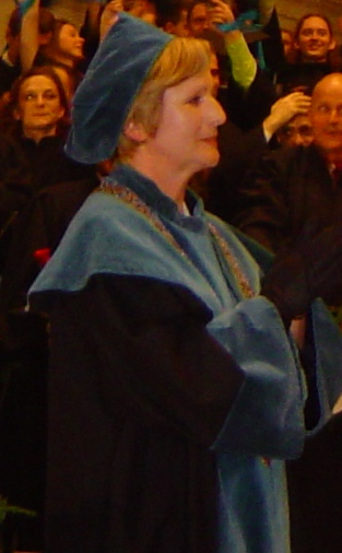 Prof Danuta Minta-Tworzowska - Polish historian